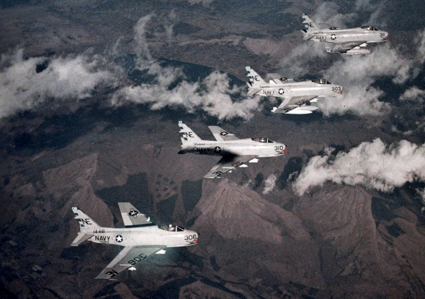 Four U.S. Navy North American FJ-4B Fury aircraft from Attack Squadron 63 (VA-63) Fighting Redcocks in flight. VA-63 was assigned to Carrier Air Group 2 (CVG-2) aboard the aircraft carrier USS Midway (CVA-41) for a deployment to the Western Pacific from 16 August 1958 to 12 March 1959. VA-63 was redesignated VA-22 on 1 July 1959.